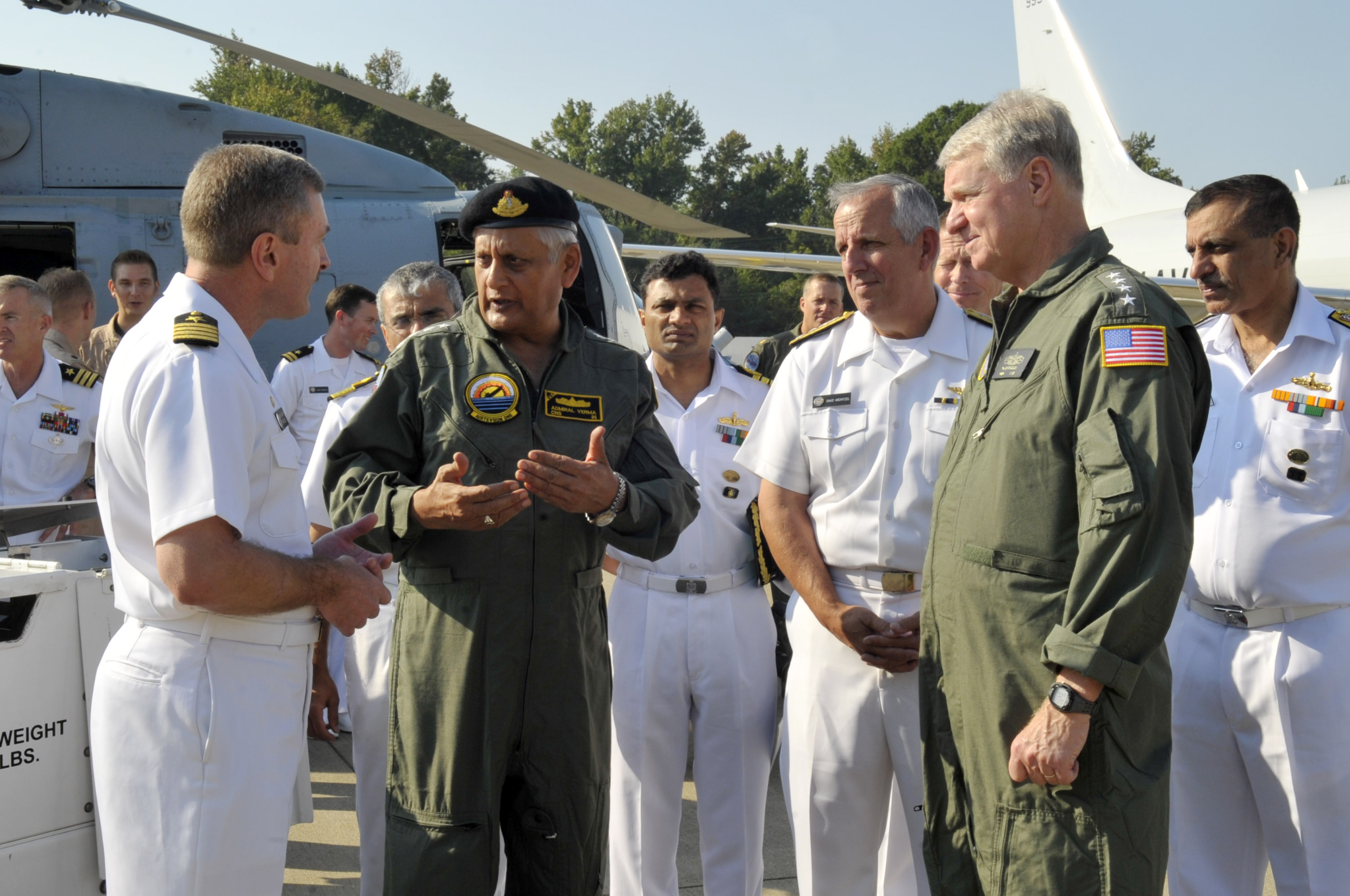 PAXTUXENT RIVER, Md. (Sept. 24, 2010) Chief of Naval Operations (CNO) Adm. Gary Roughead, right, and Chief of Naval Staff of the Indian Navy Adm. Nirmal Verma, middle left, tour various aircraft and facilities at Naval Air Station Paxtuxent River. (U.S. Navy photo by Chief Mass Communication Specialist Tiffini Jones Vanderwyst/Released)